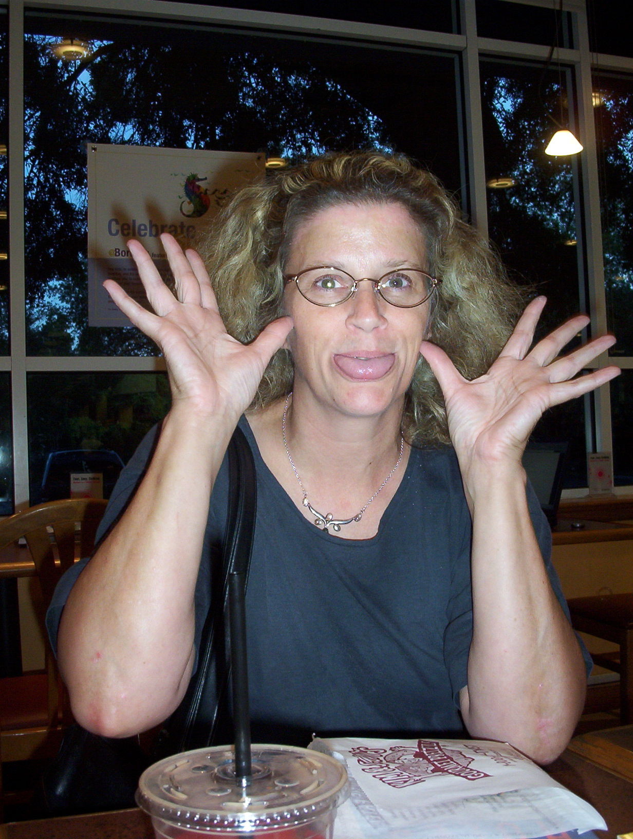 Barbara Randall Kesel at a BookCrossing meetup, 15 January 2002